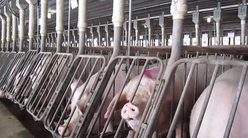 Smithfield Foods gestation crates, Smithfield Foods/Murphy Brown pig breeding facility, Waverly, Virginia, United States [1]